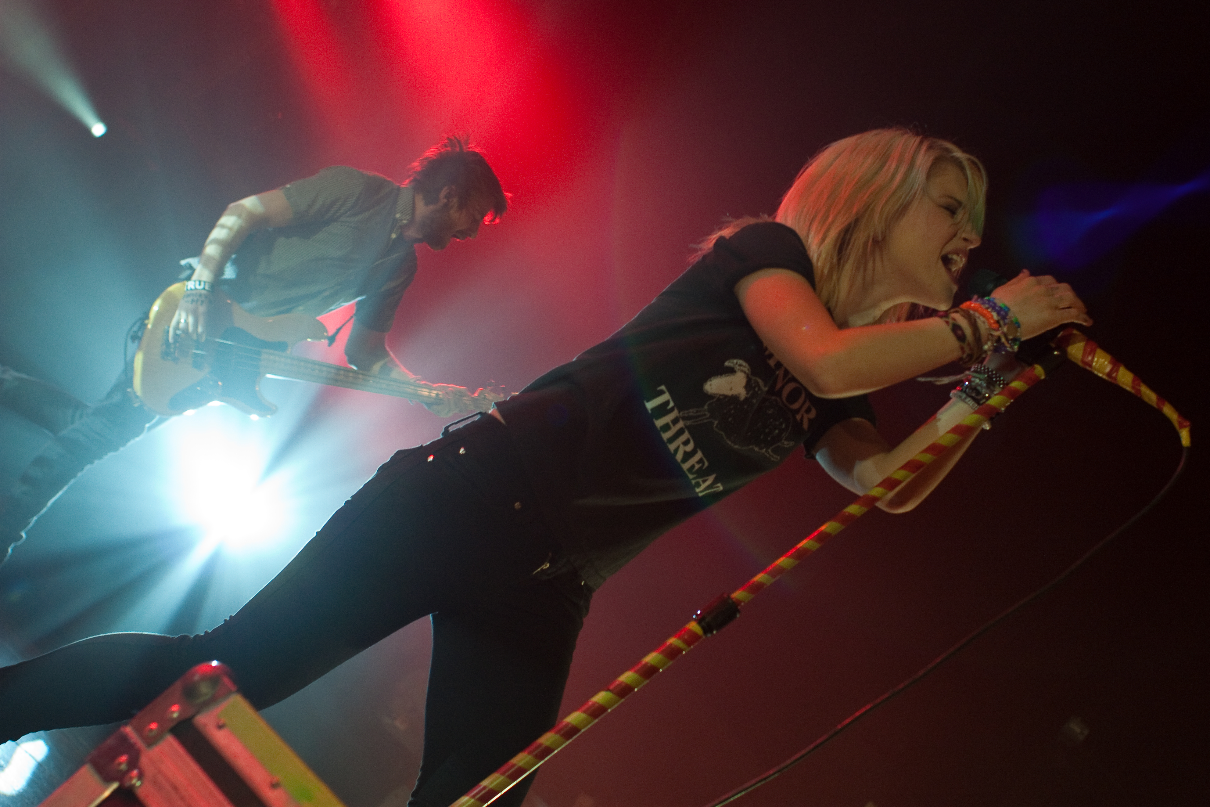 Hayley Williams performing with Paramore at the Warfield